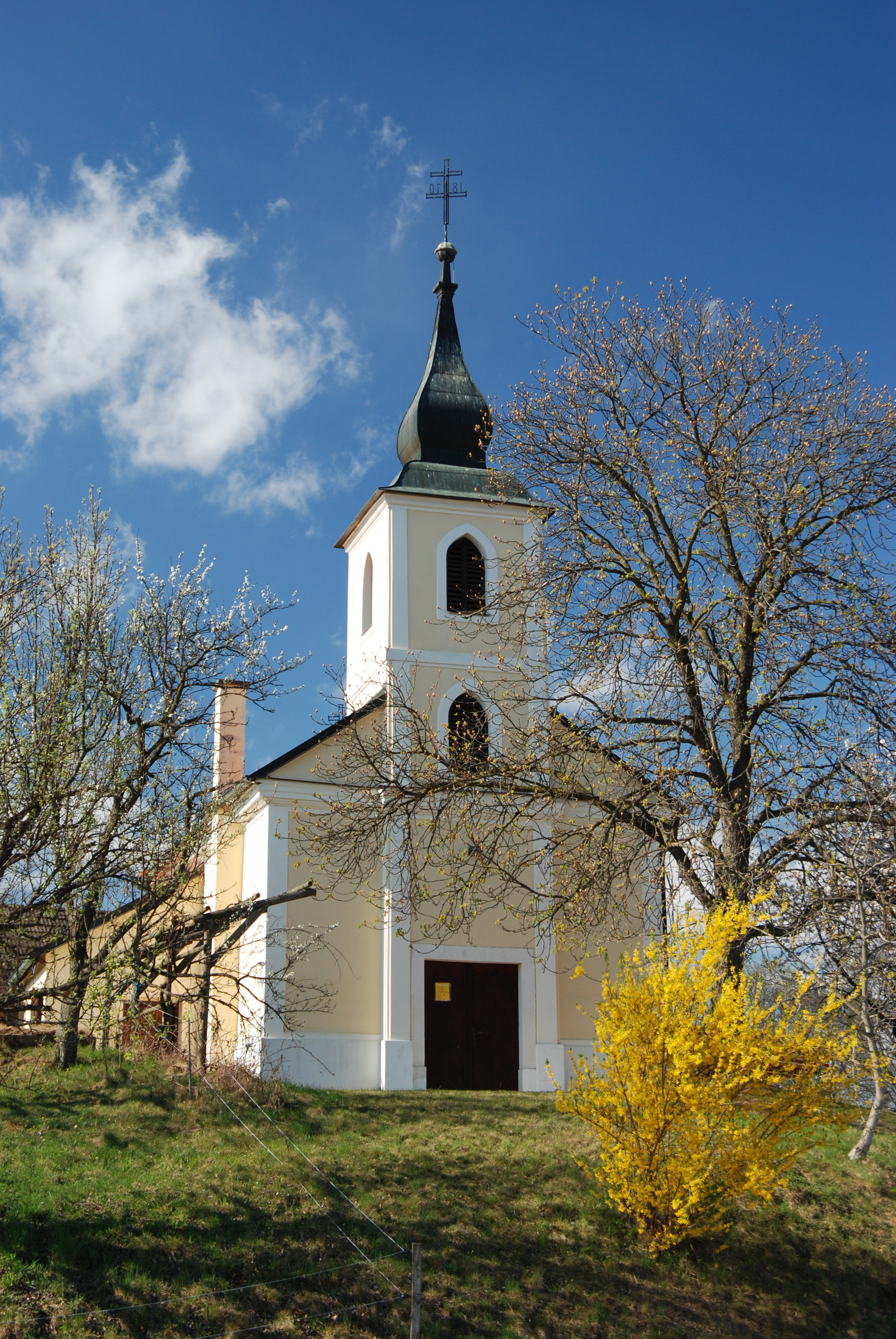 Ortskapelle Welten Deutscheck